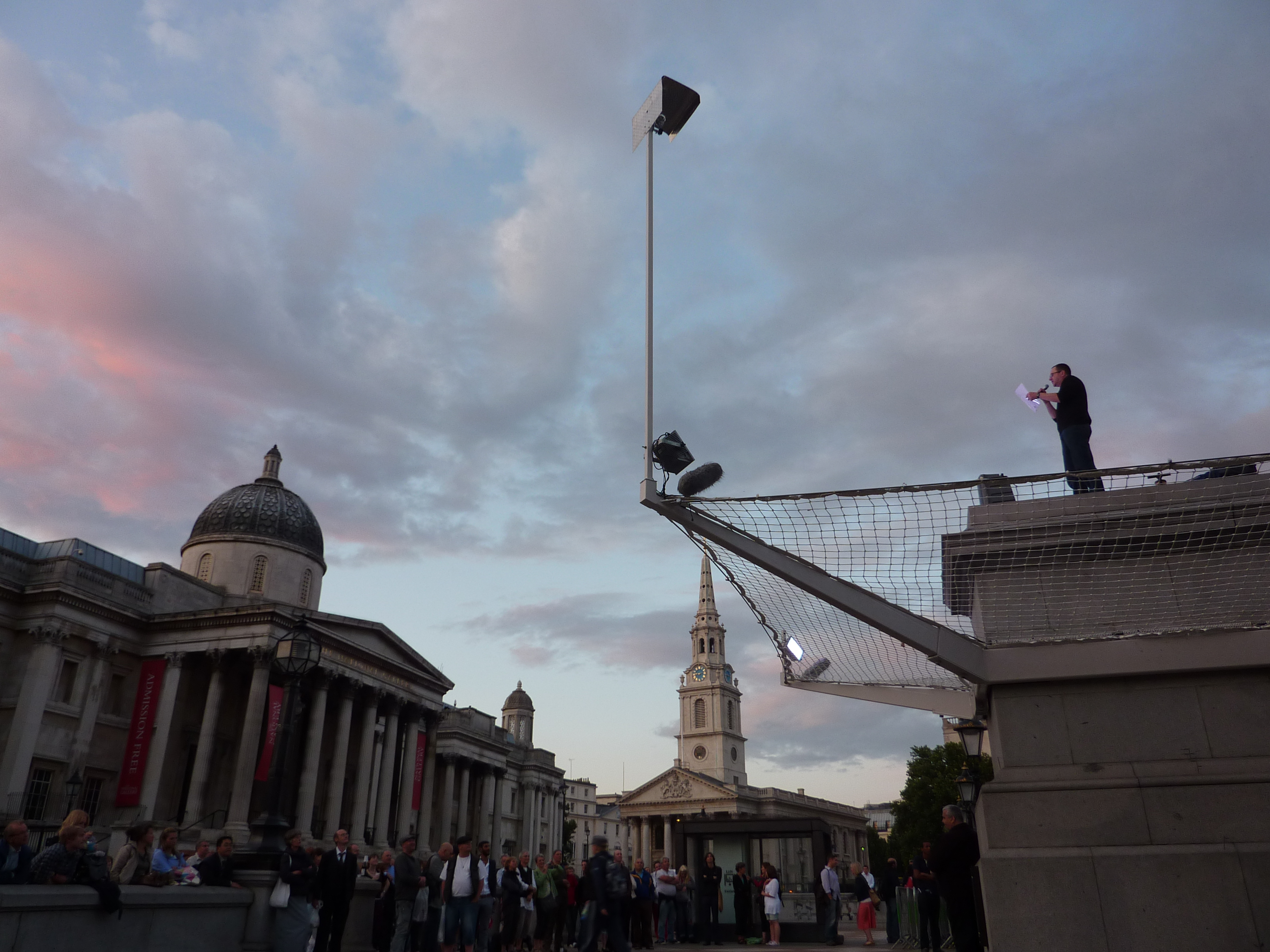 British artist Antony Gormley at the opening of his art installation One and Other at the "fourth plinth" at Trafalgar Square in London. The work consisted of 2,400 randomly selected members of the public who each spent one hour on the plinth between 6 July and 14 October 2009.